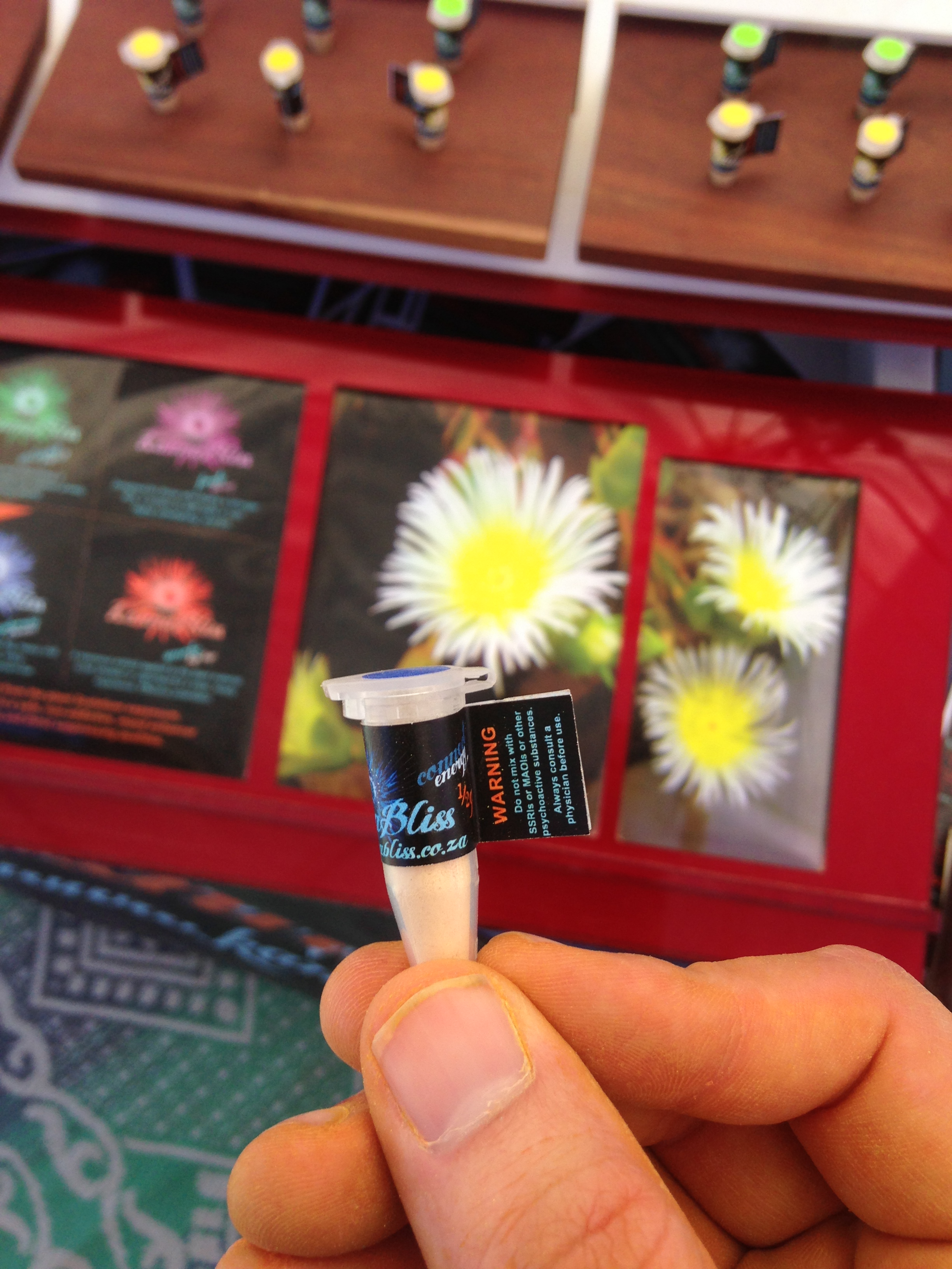 Sceletium tortuosum being sold commercially in Cape Town, South Africa in March 2014. The Sceletium is ground up into a brown powder and typically ingested orally.